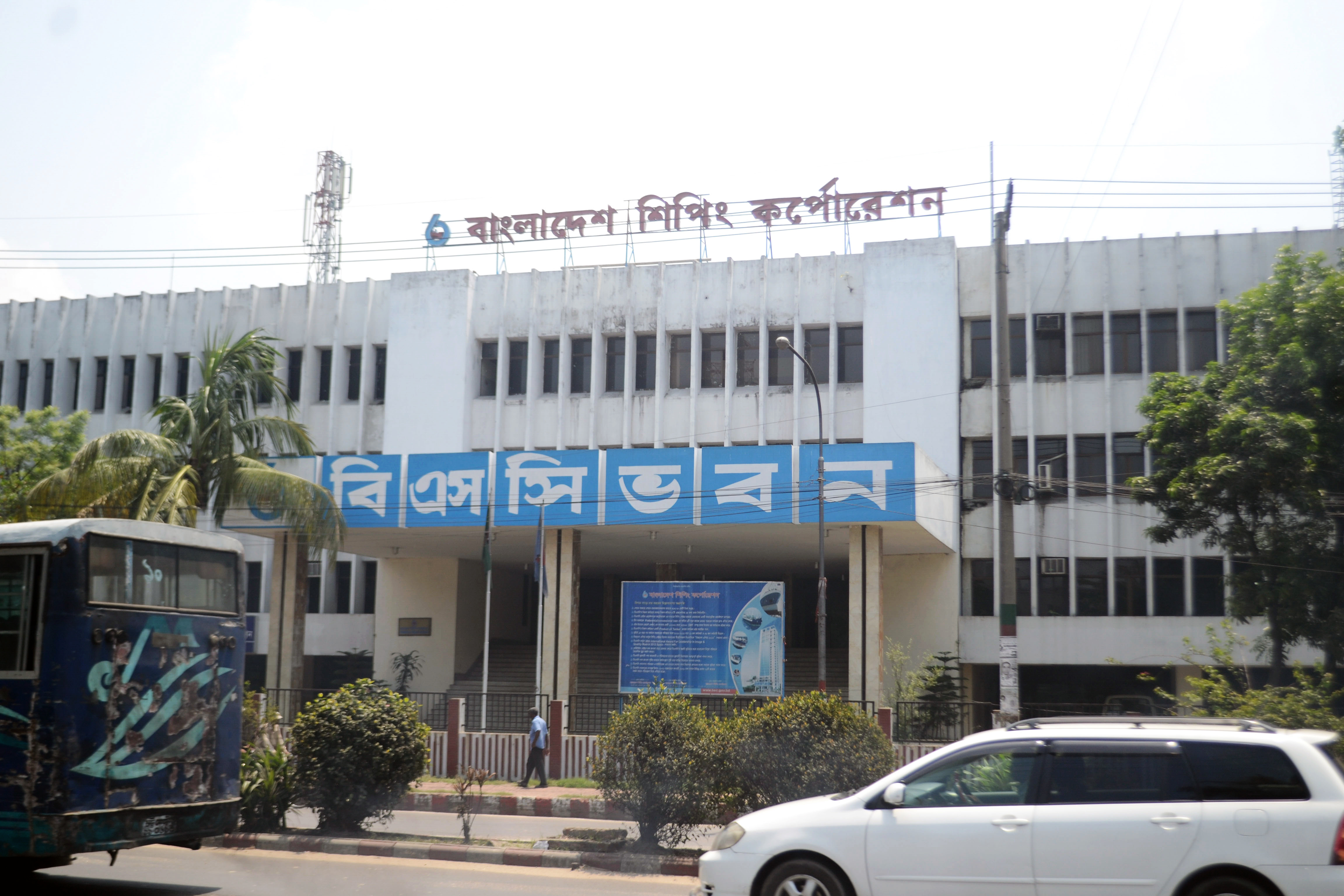 Bangladesh Shipping Corporation